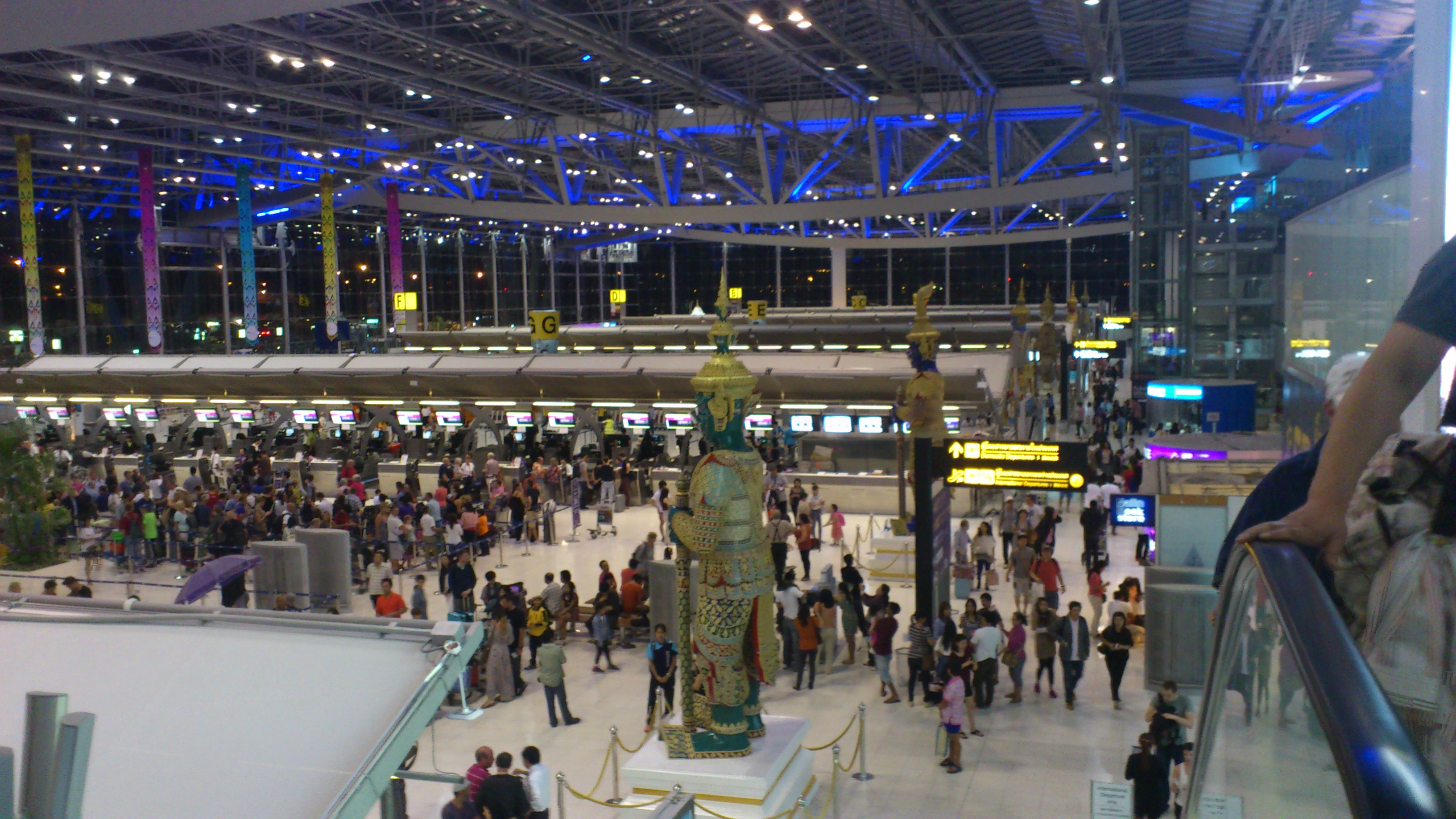 Check-in area of Bangkok-Suvarnabhumi